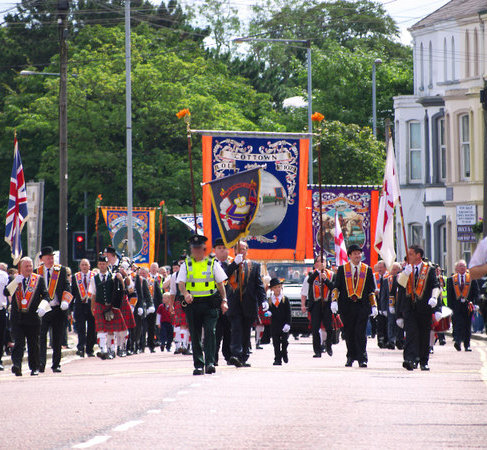 Orangemen parade along Hamilton Road in Bangor on 12th July 2010.